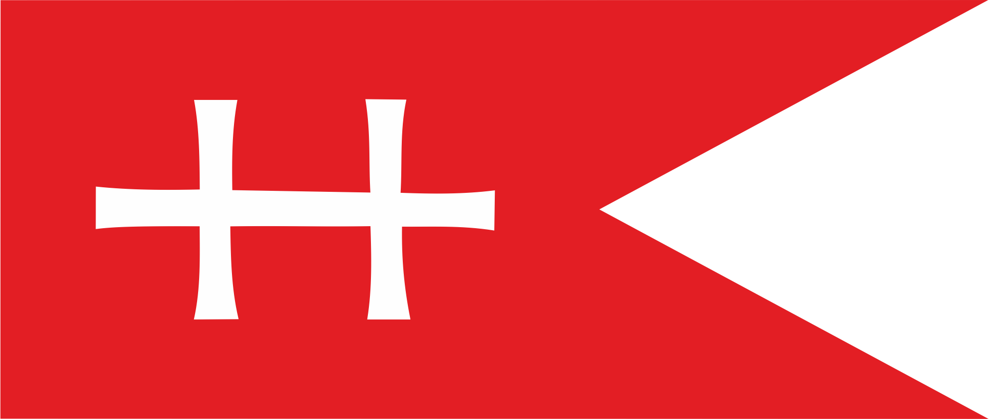 The oldest flag of the Slovak territory. Consists of the double cross in the red field. It is currently a part of the coat of arms of the Nitra city in the Slovakia. The origin of the flag comes from the 13th century, as a part of the Nitra's seal and also from the coin of the Gejza I. who was the prince of the Nitra Principality. The origin of this coin goes back to the times around the year 970. There is a possibility that this may be the flag of this principality.